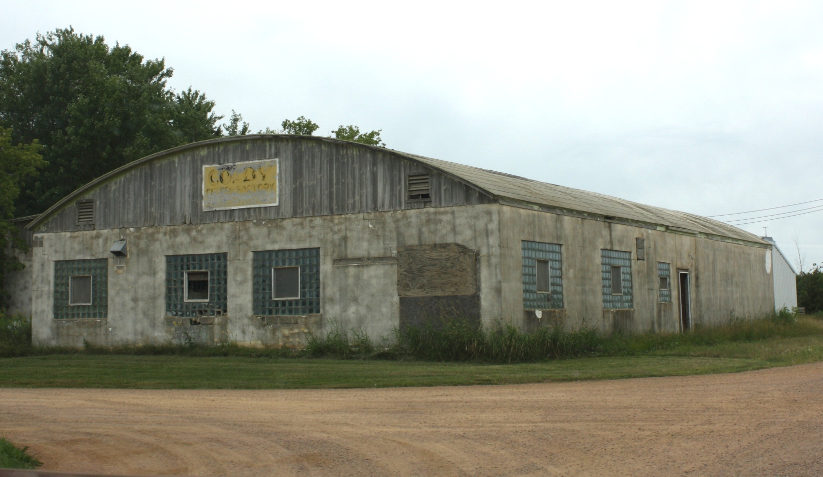 The original factory for Colby cheese. It is located 1 mile south and 1 mile west of Colby, Wisconsin,United States at the location documented by a sign in the middle of the community.